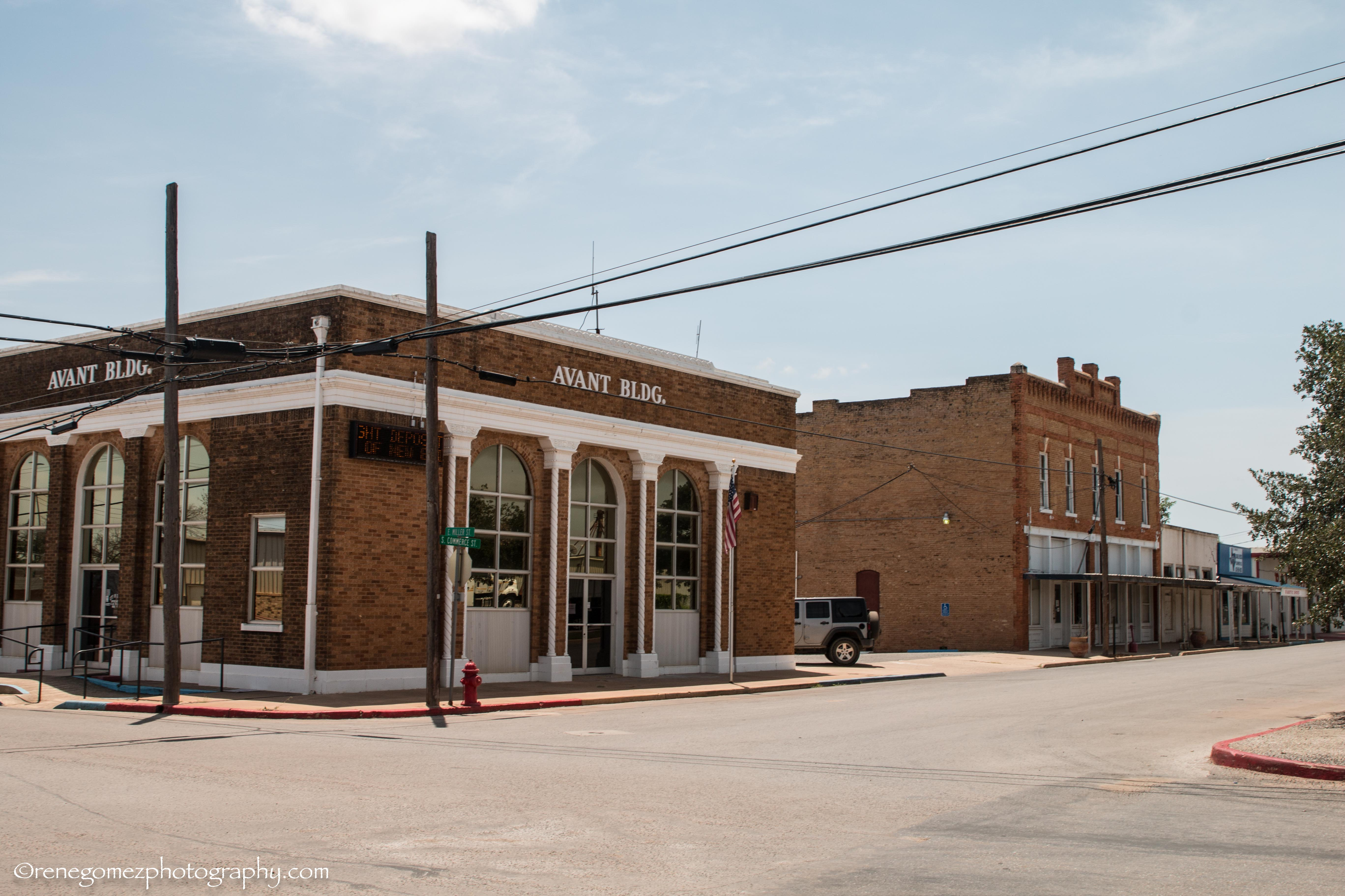 Avant Building in Dilley, Texas